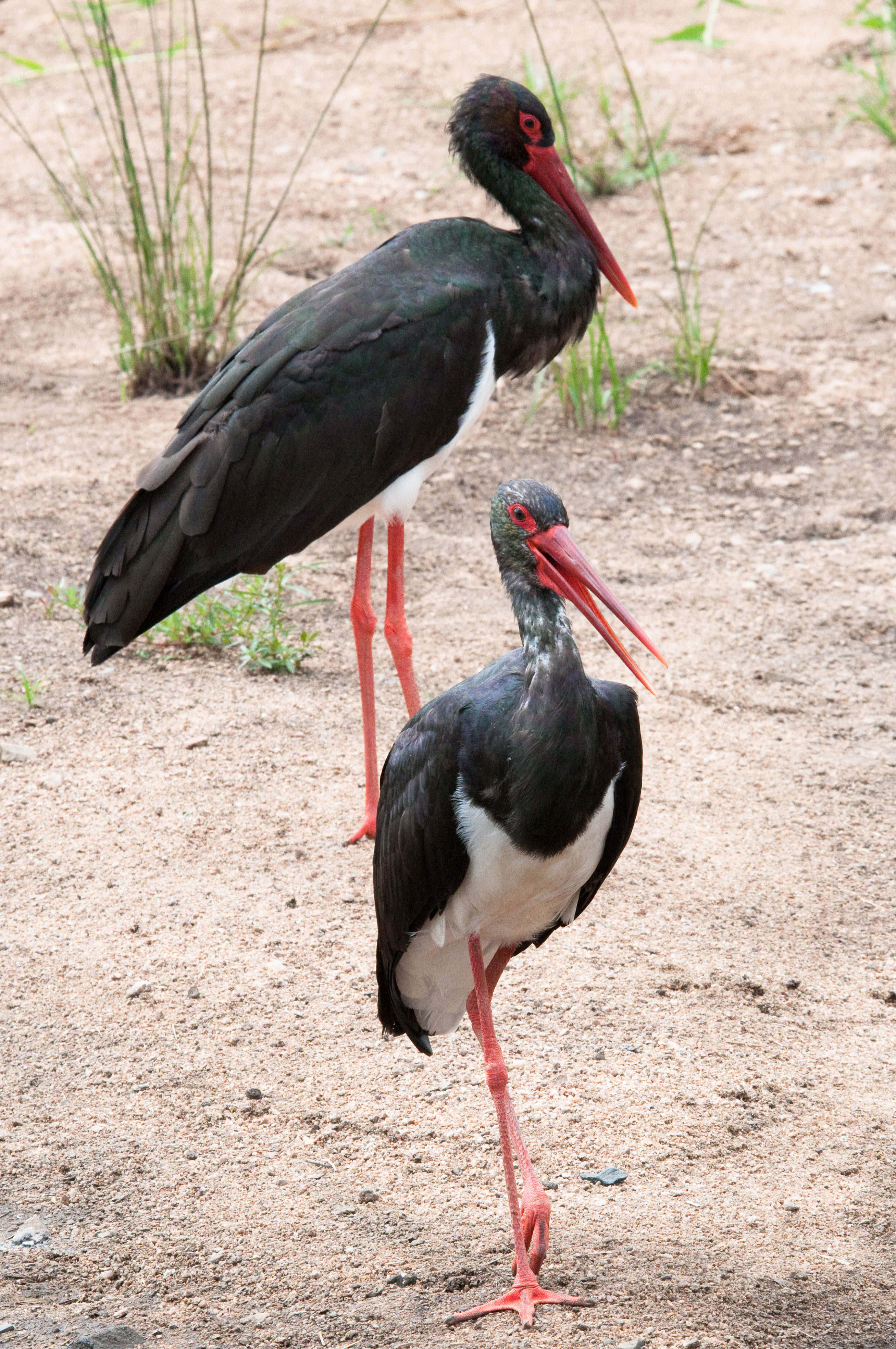 Black Stork in Kruger National Park, South Africa.